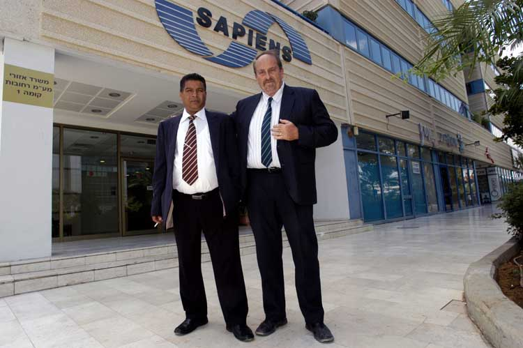 This is an image of myself (right) and my fellow Bedouin activist, Ovadia Yerushalmi, (left) standing in front of the Sapiens building entrance. Ovadia Yerushalmi is his adopted Hebrew name and not his birth name. He is a key figure in finding descendants of forced Jewish converts to Islam ready to tell their story and expose it in front of the camera.